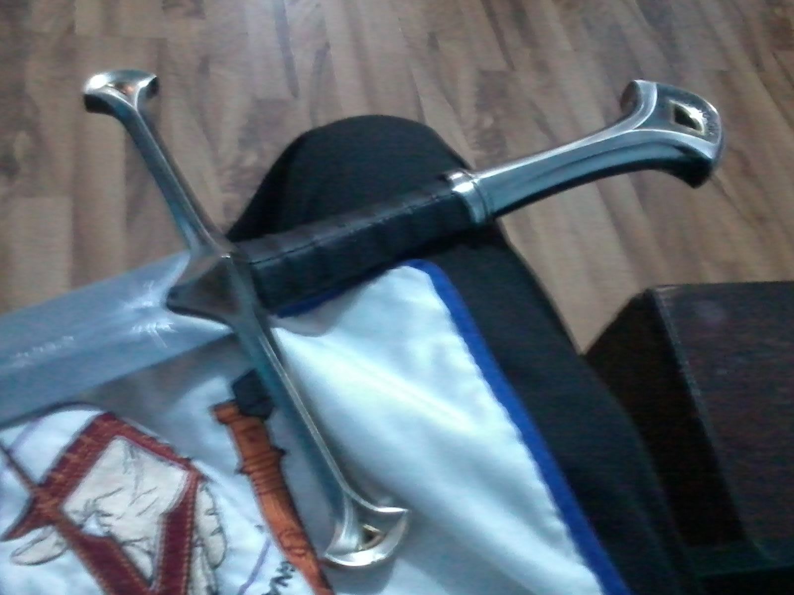 Ceremony of passage from the apprenticeship degree to the fellowcraft degree (wages of the fellowcraft) at a lodge of the National Mexican Rite (freemasonry, Mexico City)